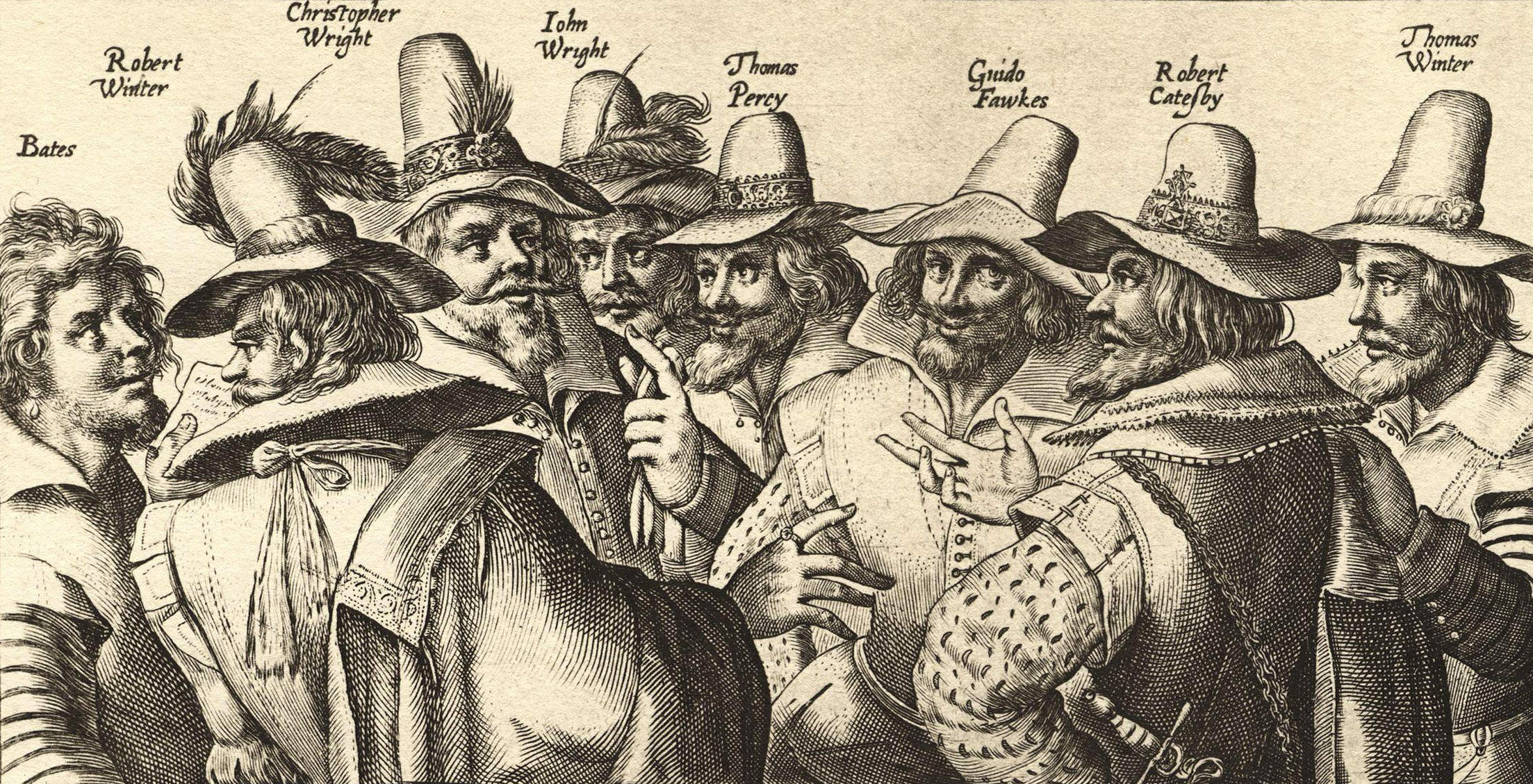 A contemporary engraving of the conspirators. The Dutch artist probably never actually saw or met any of the conspirators, but it has become a popular representation nonetheless